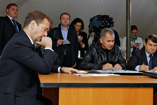 At a meeting on investigating the causes of the Yak-42 crash and assistance to the victims’ families. With Emergencies Minister Sergei Shoigu (centre) and Transport Minister Igor Levitin